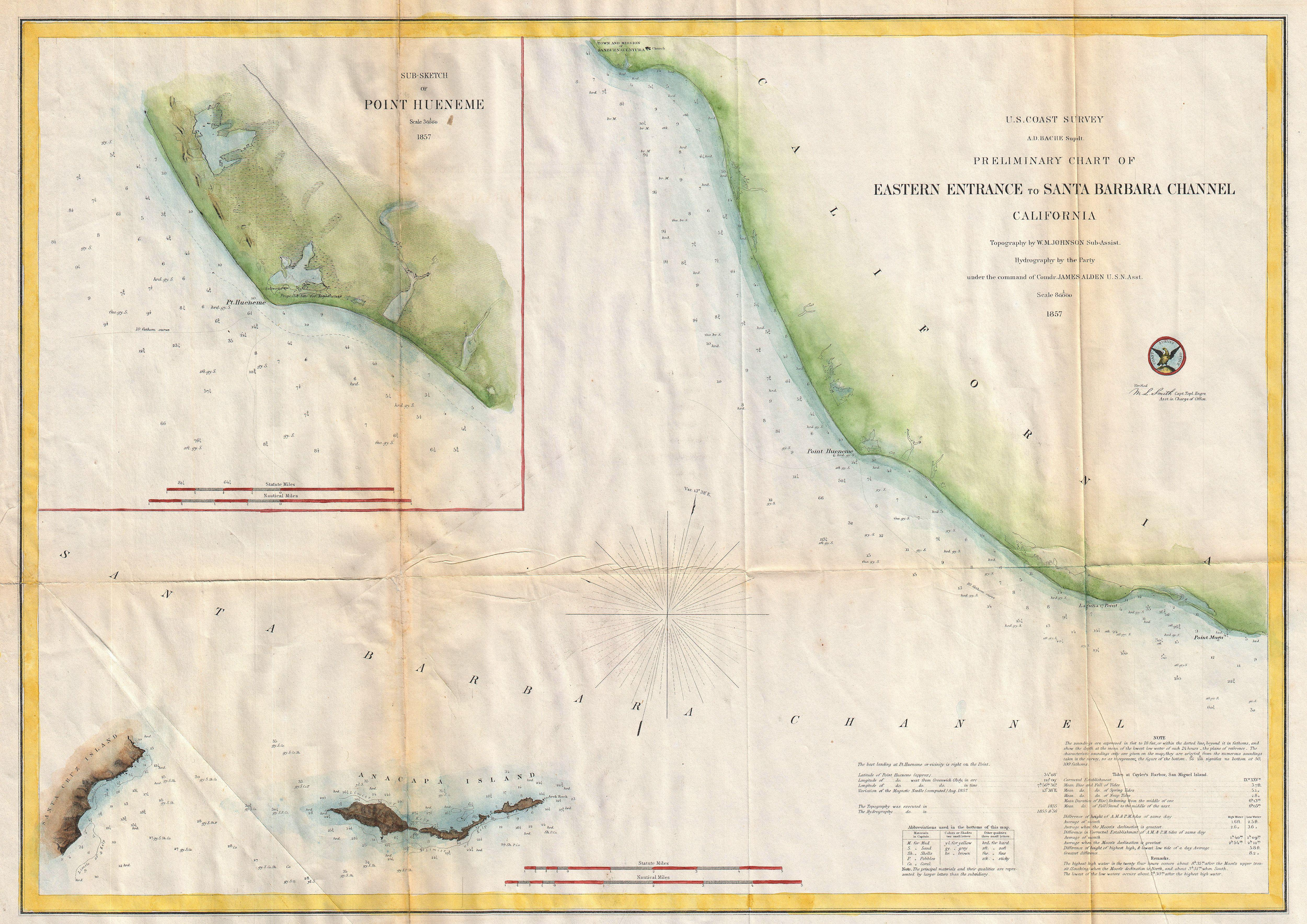 An extremely attractive hand colored 1857 U.S. Coast Survey chart or map of the Eastern Entrance to Santa Barbara Channel. Depicts the California coast from the Town and Mission of San Buenaventura (Ventura, CA) to Point Mugu. Includes Santa Cruz Island and Anacapa Island. An inset map in the upper left quadrant details Point Hueneme (Port Hueneme) and its vicinity. The entire map offers numerous depth soundings. Detailed information on Tides and Sailing instructions in the lower right quadrant. The topography for the map was prepared by W. M. Johnson. The hydrography was accomplished by a party under the command of James Alden. Compiled under the direction of A. D. Bache, Superintendent of the Survey of the Coast of the United States and one of the most influential American cartographers of the 19th century.